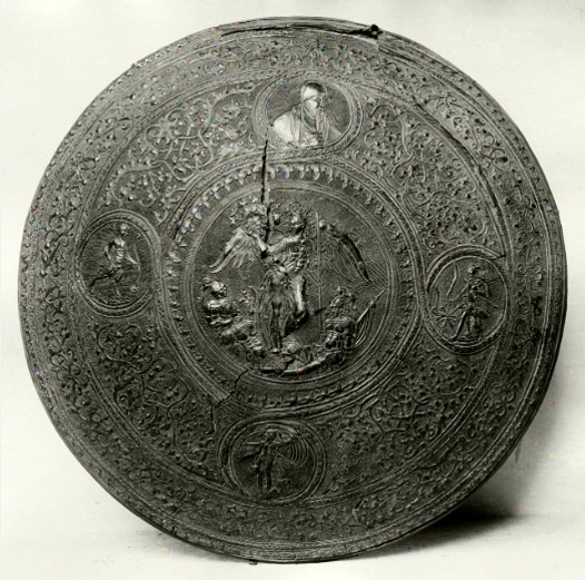 Photograph